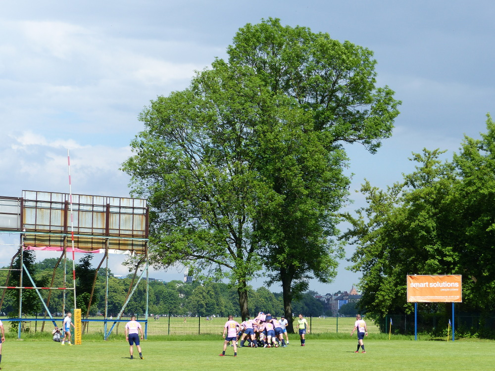 Polish league of rugby union match: Juvenia Kraków - Ogniwo Sopot, 1.06.2019